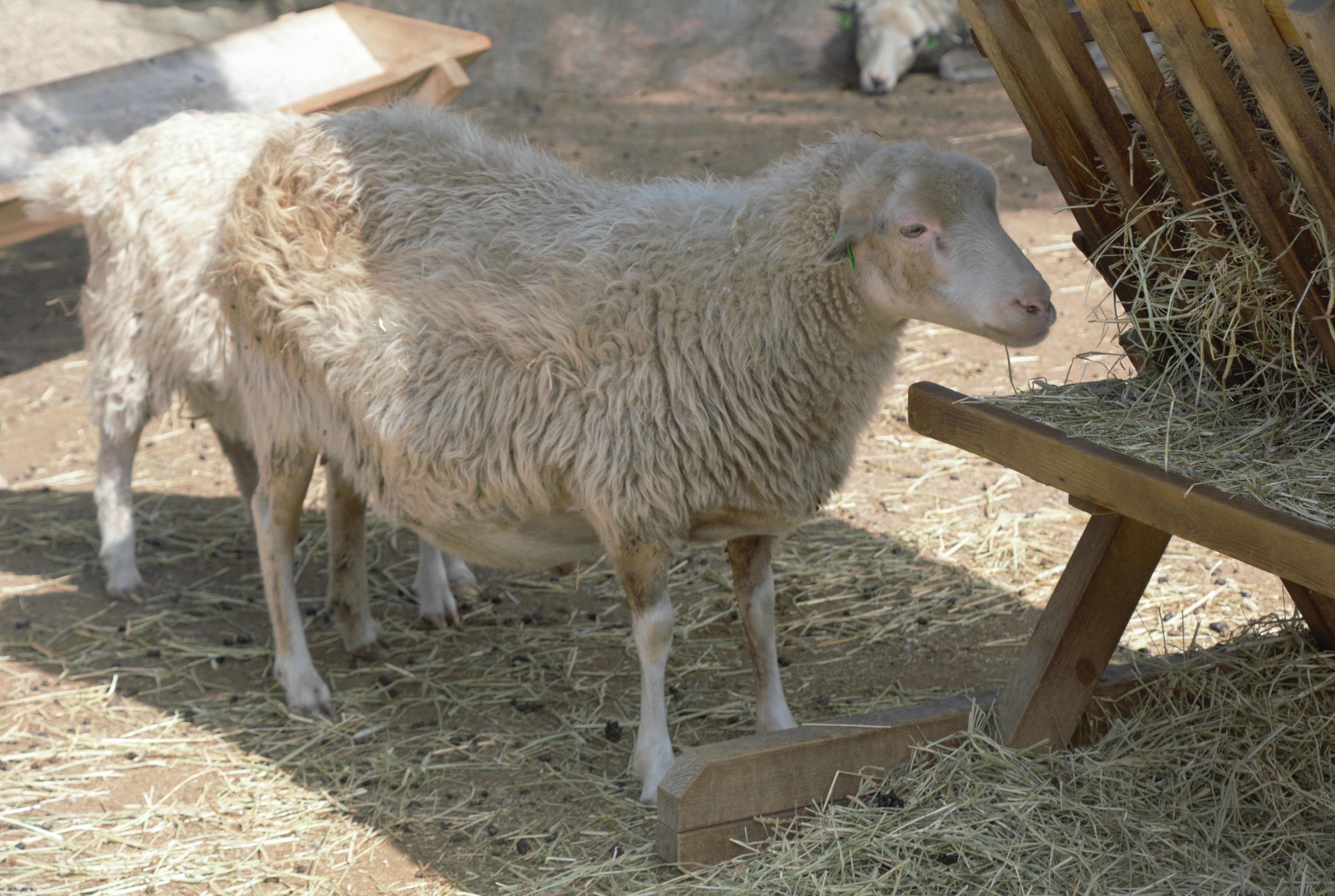 Roslagsfår, a Swedish Country Mutton Race.